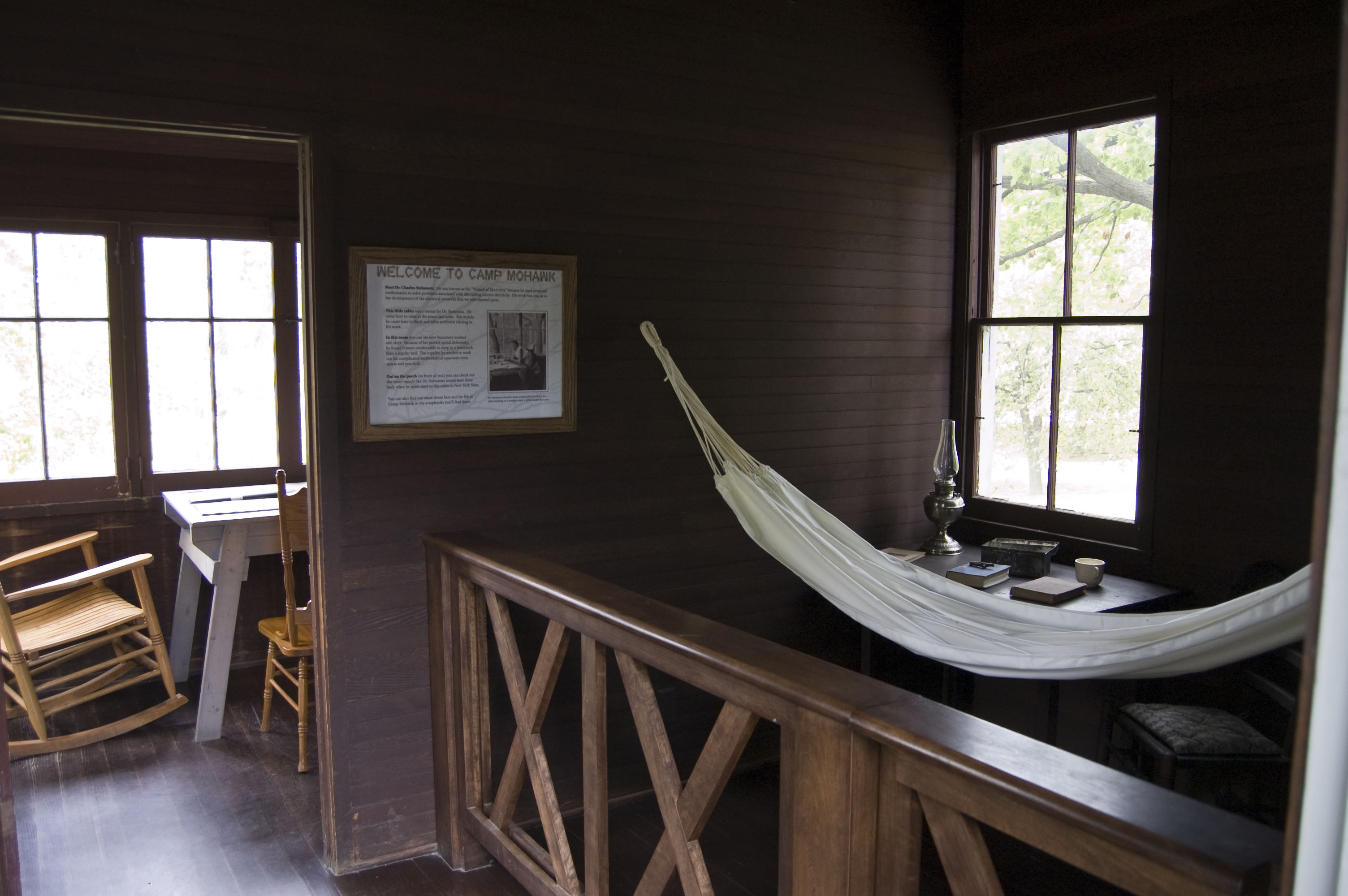 Charles Proteus Steinmetz maintained a small cabin overlooking the Mohawk River near Schenectady, NY. It was removed to Greenfield Village in Dearborn, Michigan.